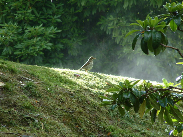 After the rain at Lanhydrock. After a torrential downpour the sky quickly cleared, and caught in the sunshine as the grass starts to dry out we can see a Song Thrush on the lookout for a worm or two.